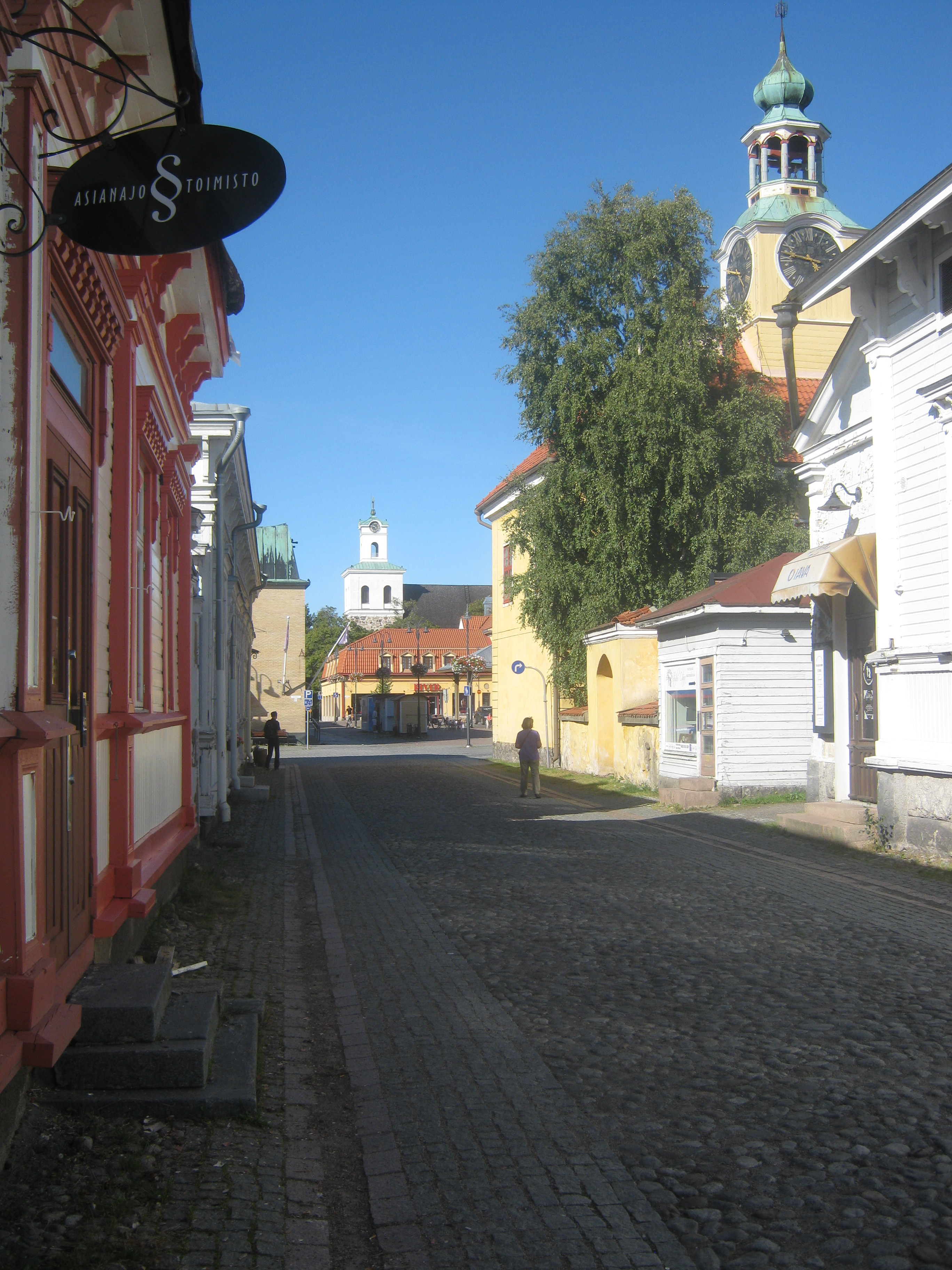 Isoraastuvankatu street at Unesco World heritage site Old Rauma, Finland.